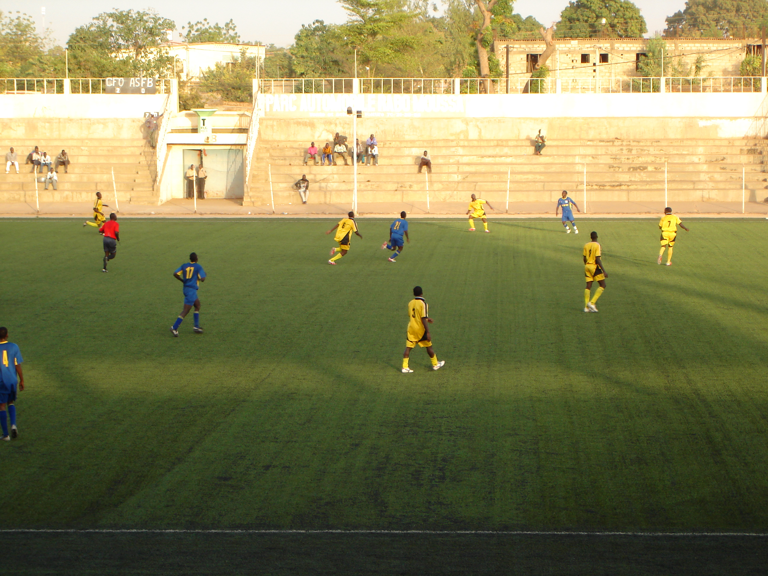 Burkina Faso: first division soccer match at stade Municipale in Ouagadougou: CF Ouagadougou – ASF Bobo-Dioulasso